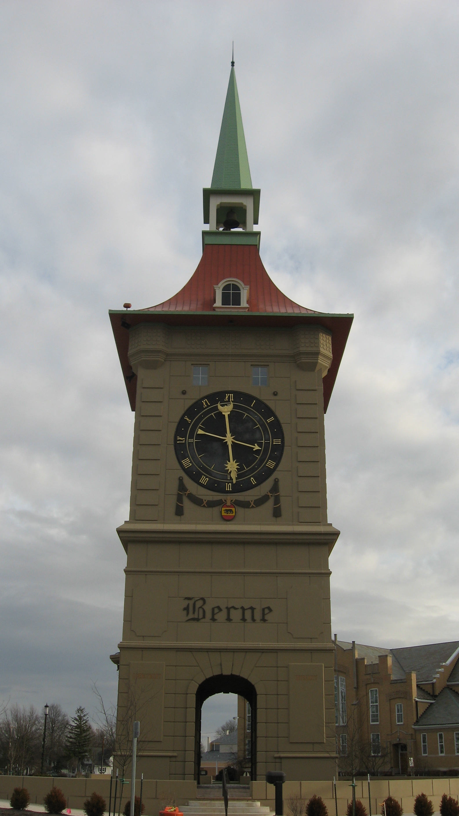 A clock tower on the northeastern corner of the junction of Church Avenue (U.S. Route 27) and Main Street (State Road 218) in downtown Berne, Indiana, United States.